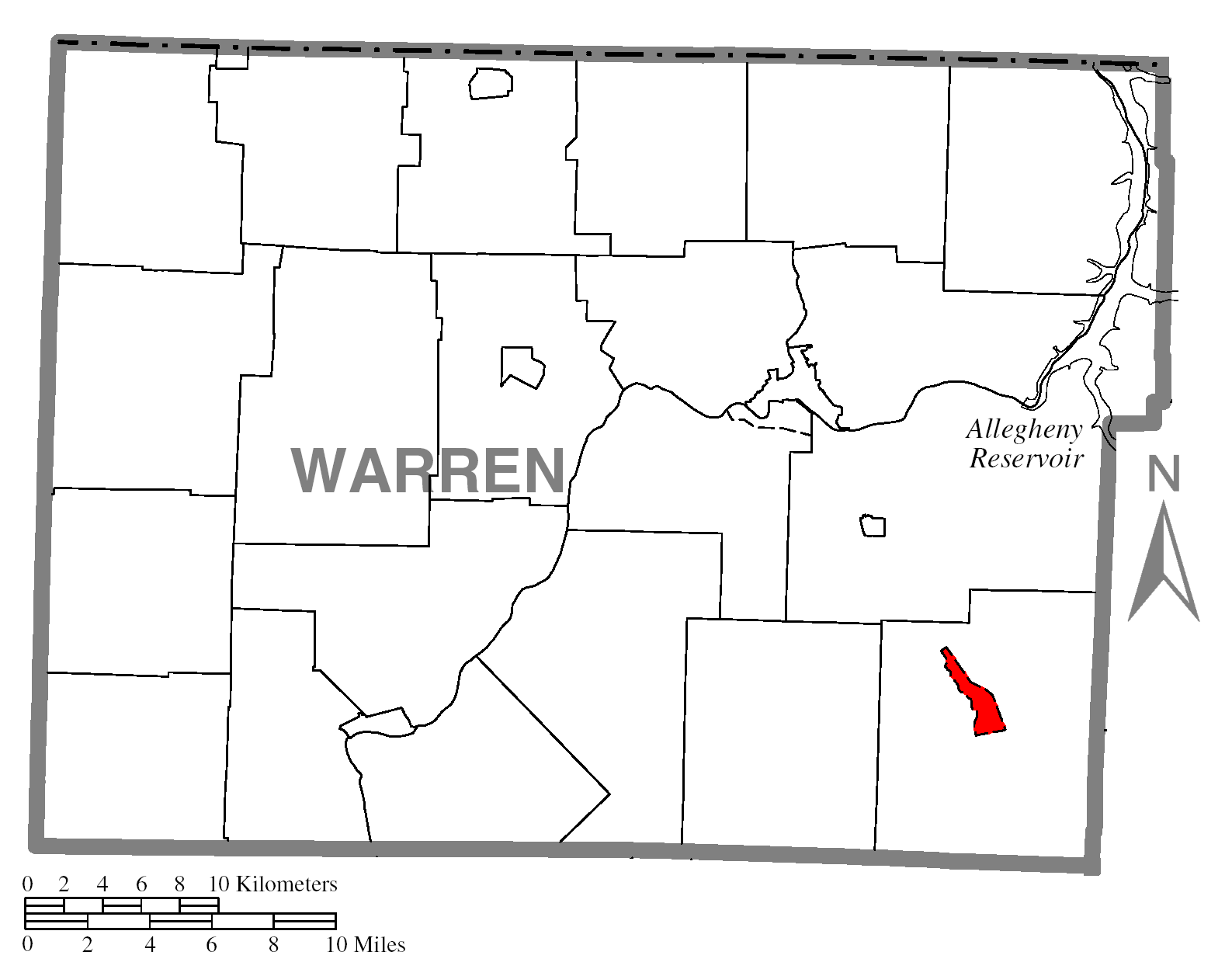 Map of Warren County higlighting Sheffield.